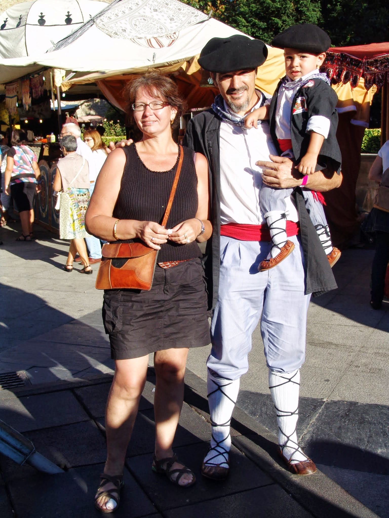 Национальная одежда